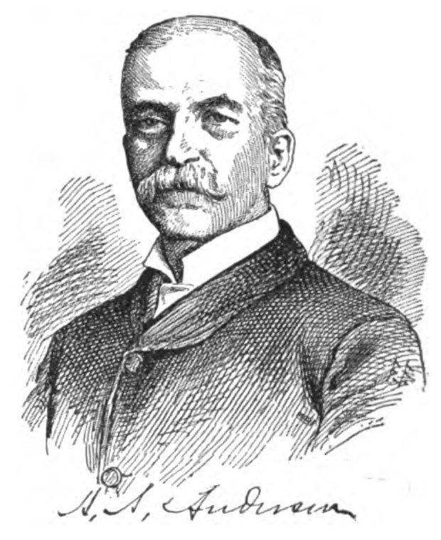 image of American artist and philanthropist Alexander Archibald Anderson (1847-1940)